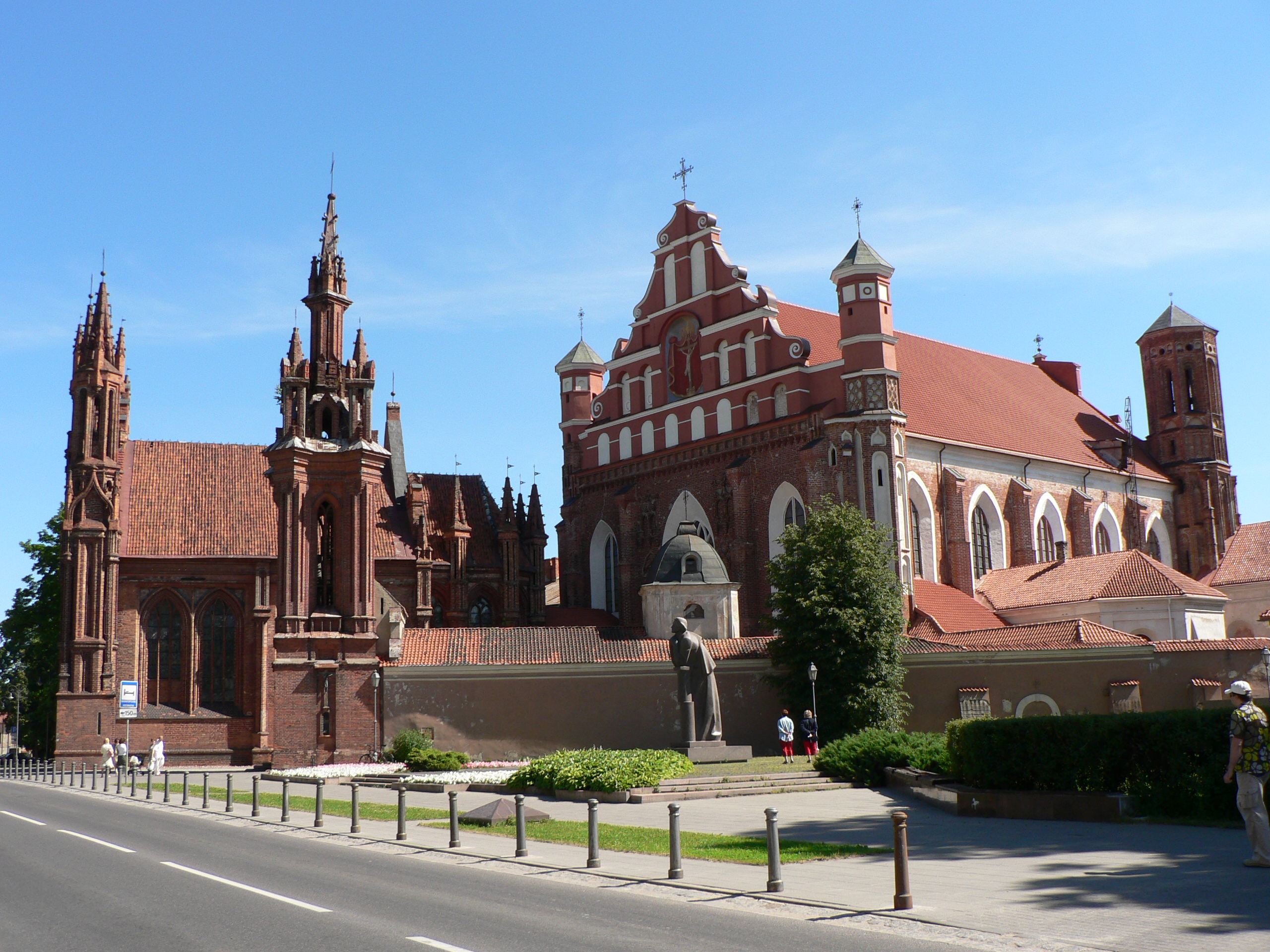 Saint Ann's church and Bernardine Monastery, Vilnius, Lithuania